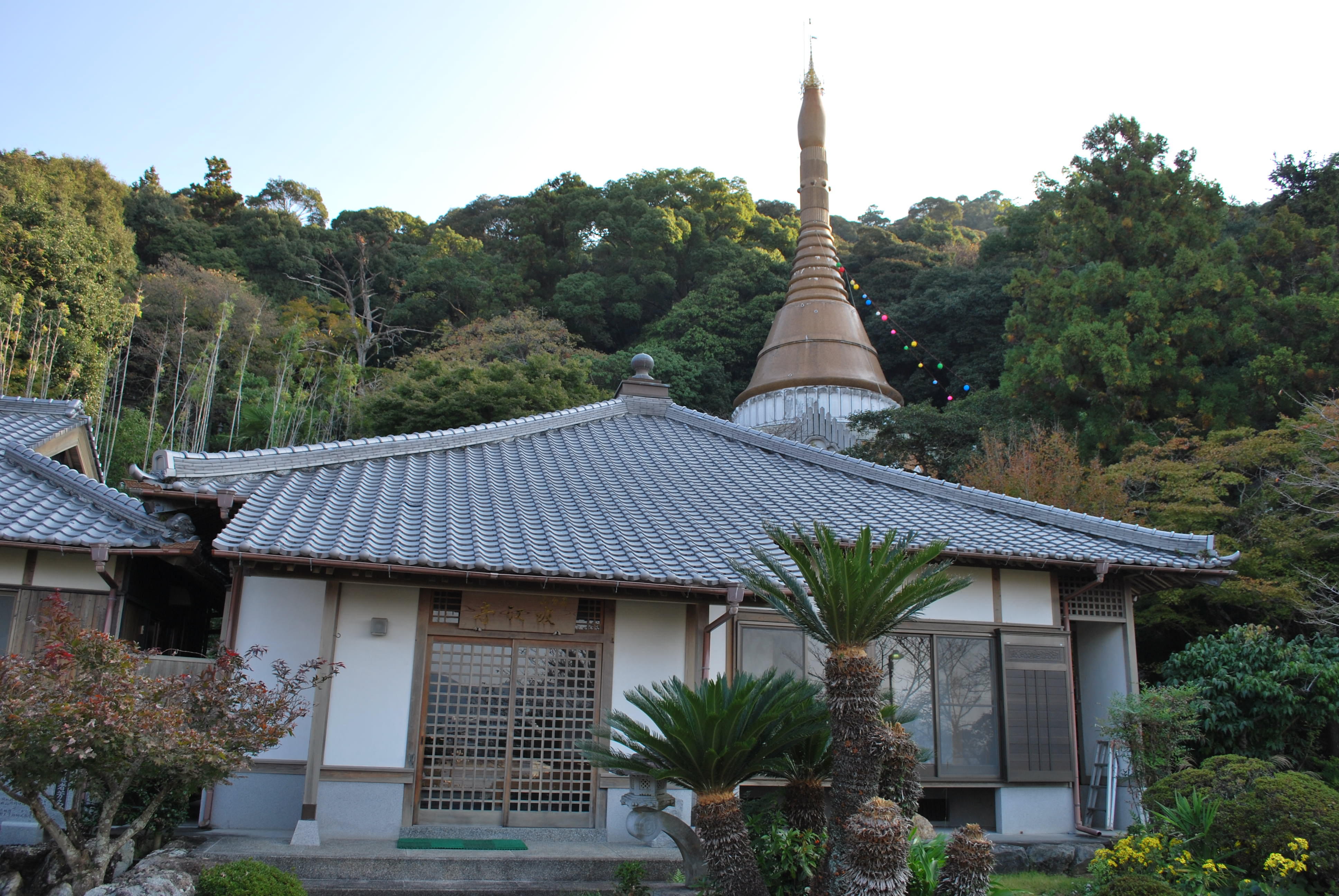 Gyūkō-ji